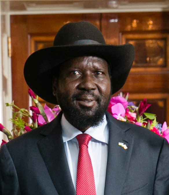 President Barack Obama and First Lady Michelle Obama greet His Excellency Salva Kiir Mayardit, President of the Republic of South Sudan, in the Blue Room during a U.S.-Africa Leaders Summit dinner at the White House, Aug. 5, 2014. [Official White House Photo by Amanda Lucidon/ This official White House photograph is in the public domain from a copyright perspective, so while restrictions such as personality or privacy rights may apply, in general, manipulations are allowed.]